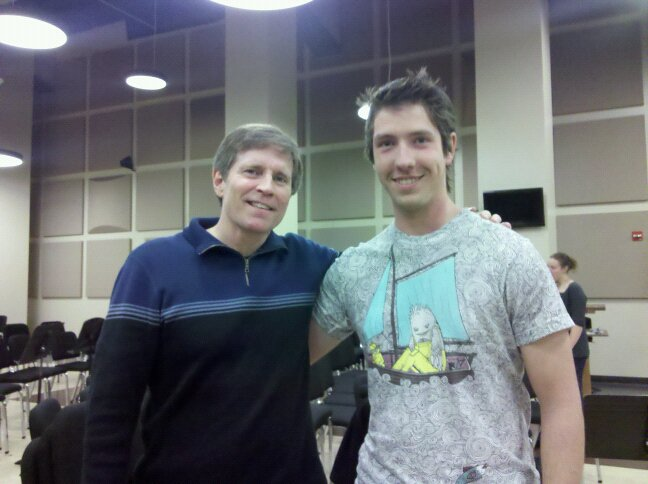 Frank Ticheli with a student after working with a university band.